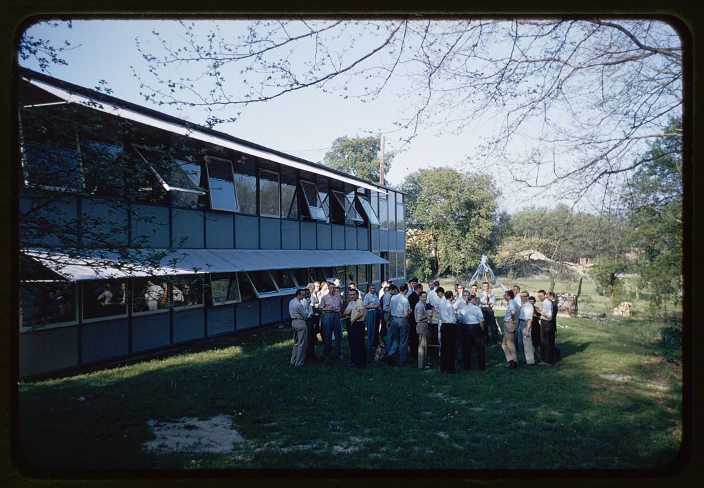 Eero Saarinen and Associates office with staff in foreground (Bloomfield Hills, Michigan) (circa 1953–1961). Note: No known restrictions on publication. Balthazar Korab Archive (Library of Congress).